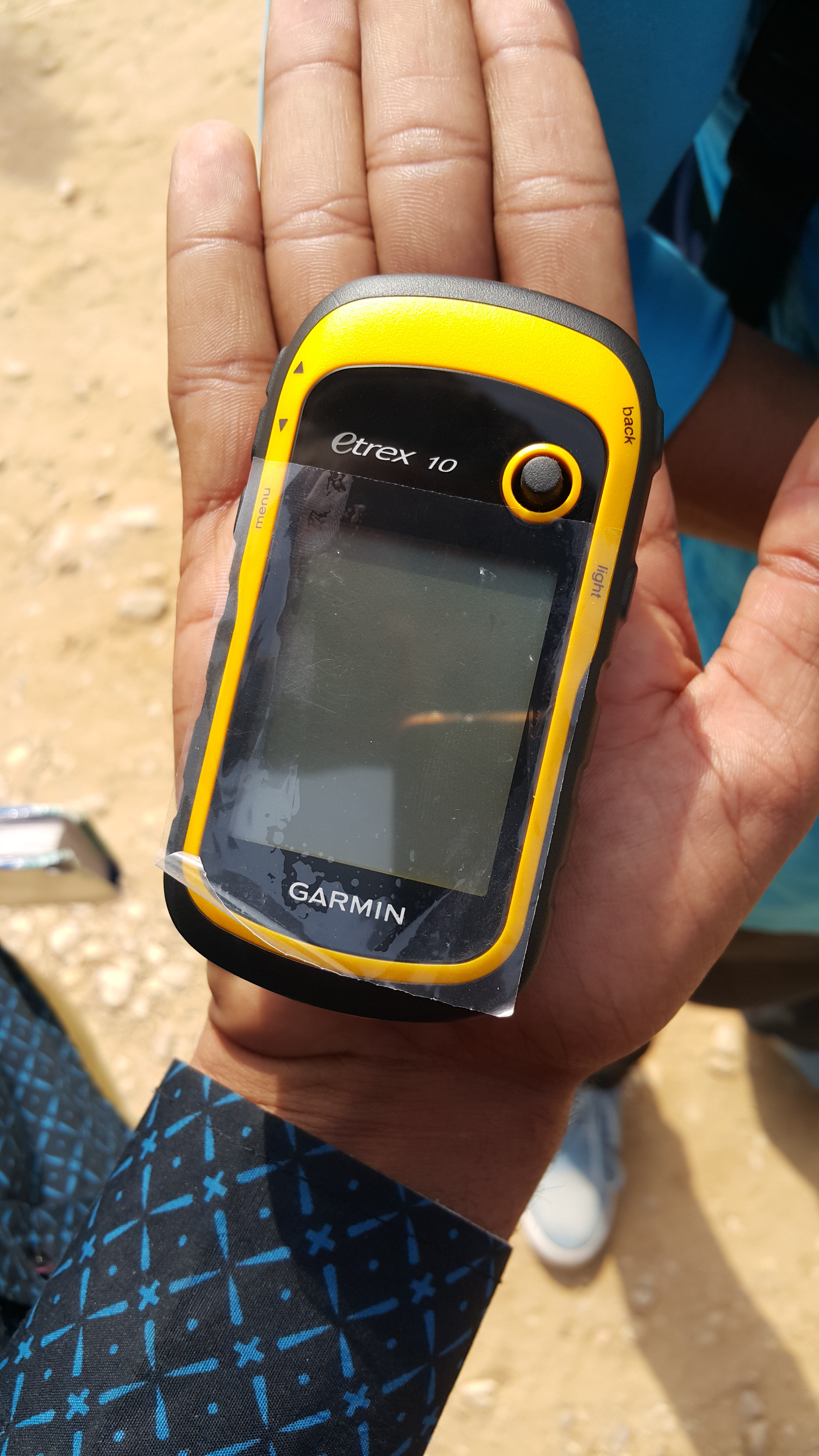 Garmin eTrex10 GPS device. This device belongs to MUET Jamshoro